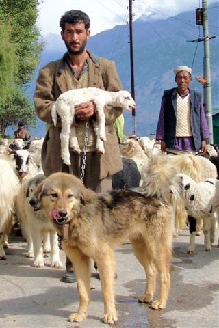 Shepherd and dog, India. This image is copyrighted by the Canadian Centre for International Studies and Cooperation (CECI) and photographed by Brent Wilson.